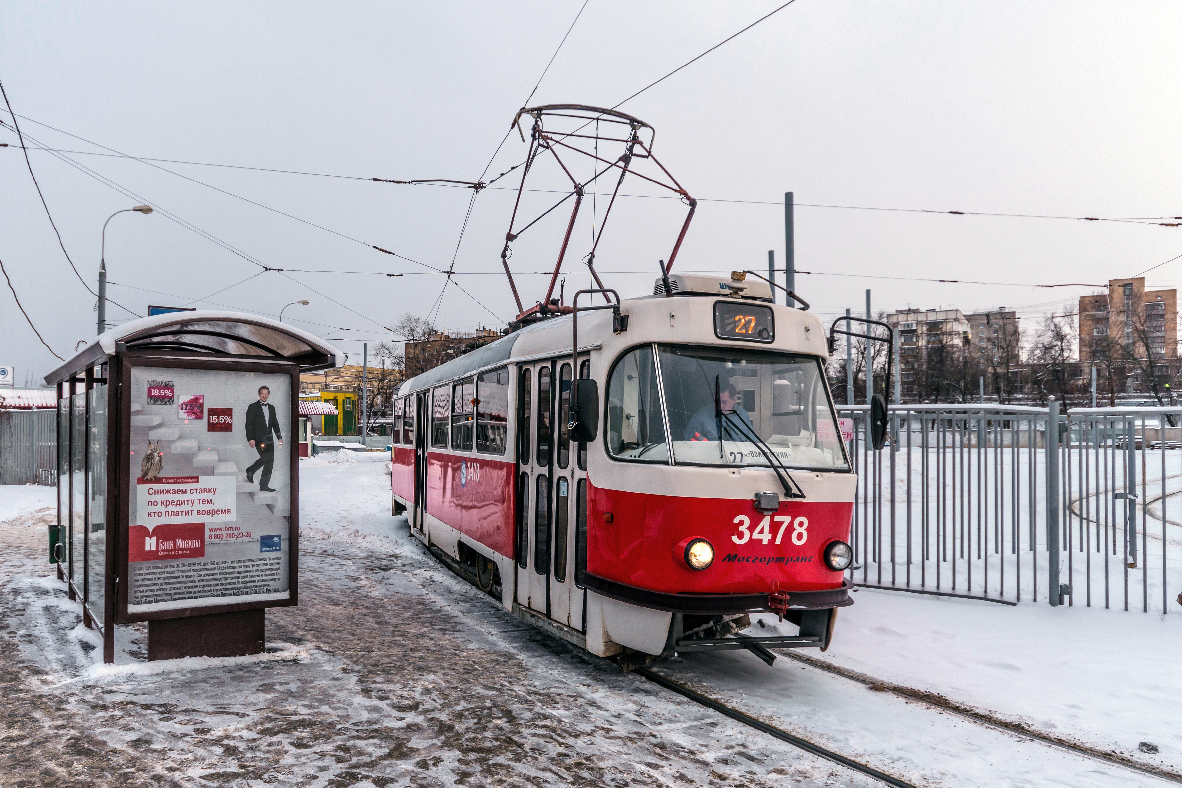 Tram Tatra T3 МТТА in Moscow